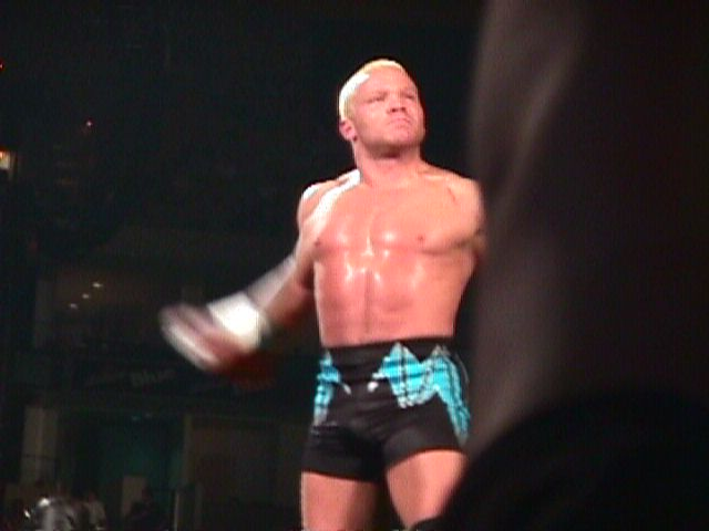 Crash Holly at the WWF King of the Ring at the Fleet Center in Boston, MA in 2000 - WWE